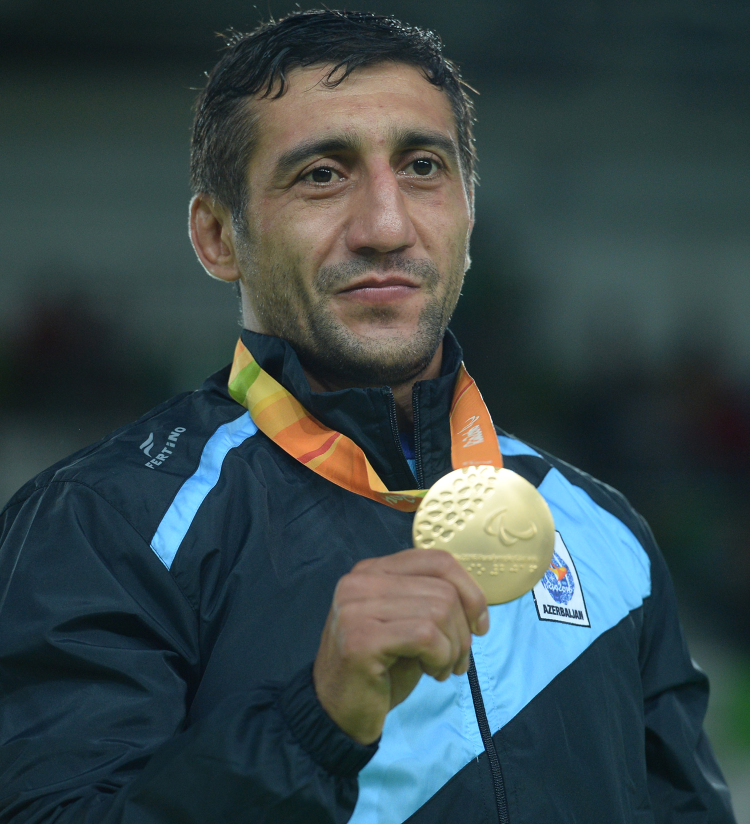 Judo at the 2016 Summer Paralympics – Men's 73 kg, Awarding ceremony